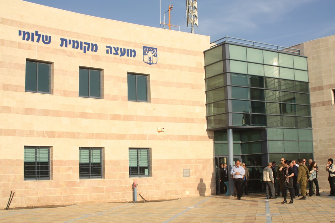 Shlomi Municipality Building